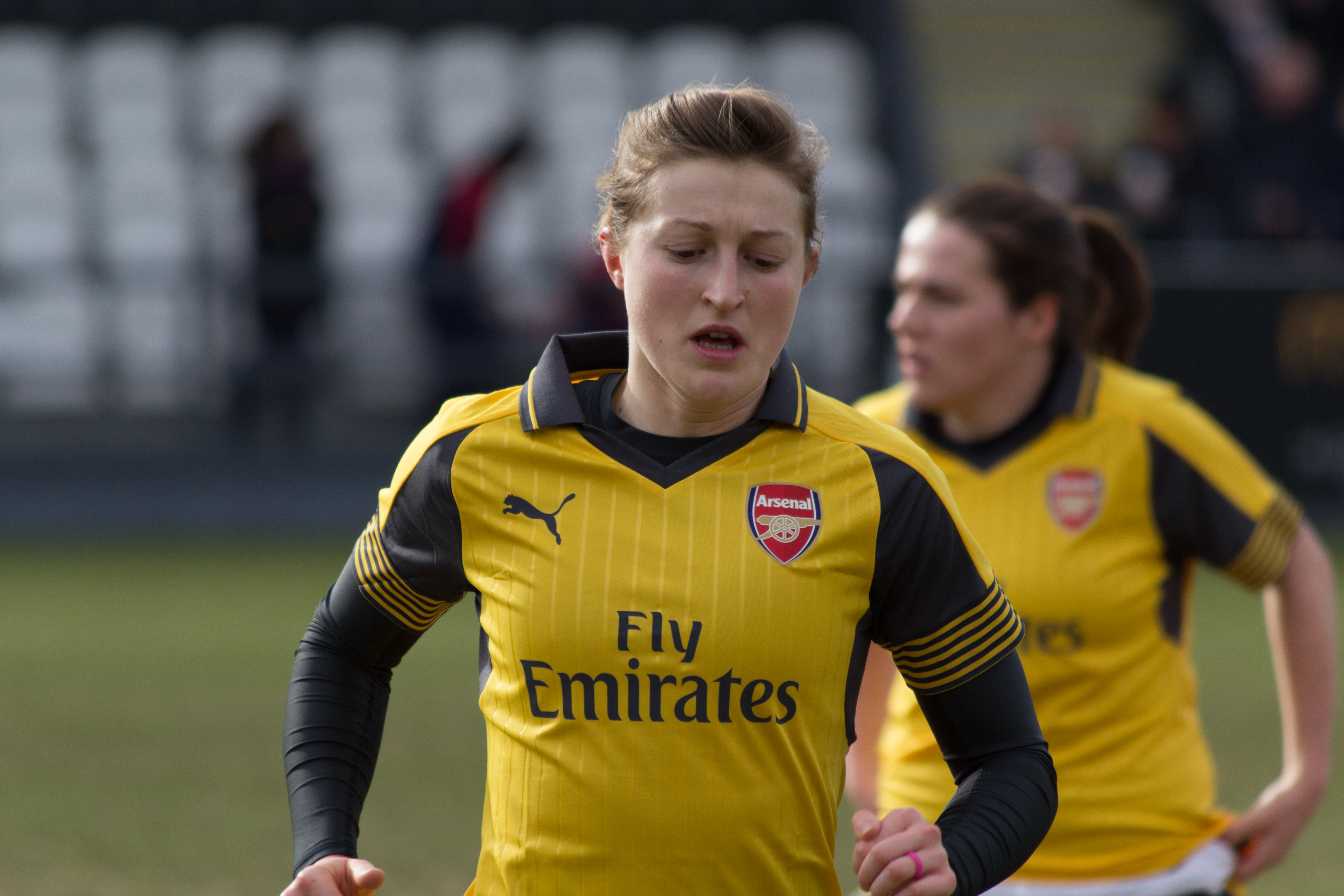 Arsenal LFC (Red) v Kelly Smith All-Stars XI (Yellow), 19 February 2017 – warmups